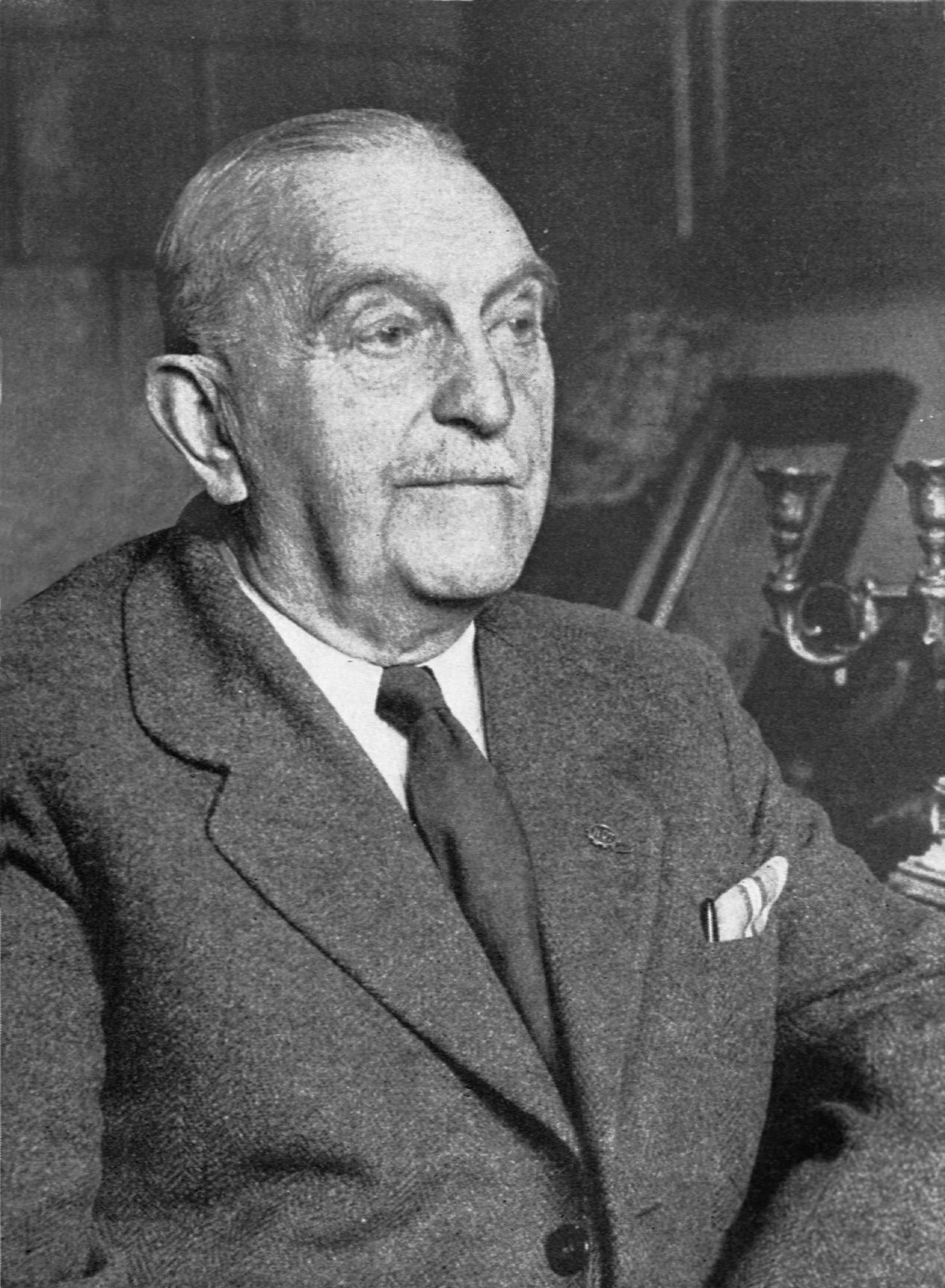 Henryk Maria Fukier, Polish wine merchant, member of the Fugger family